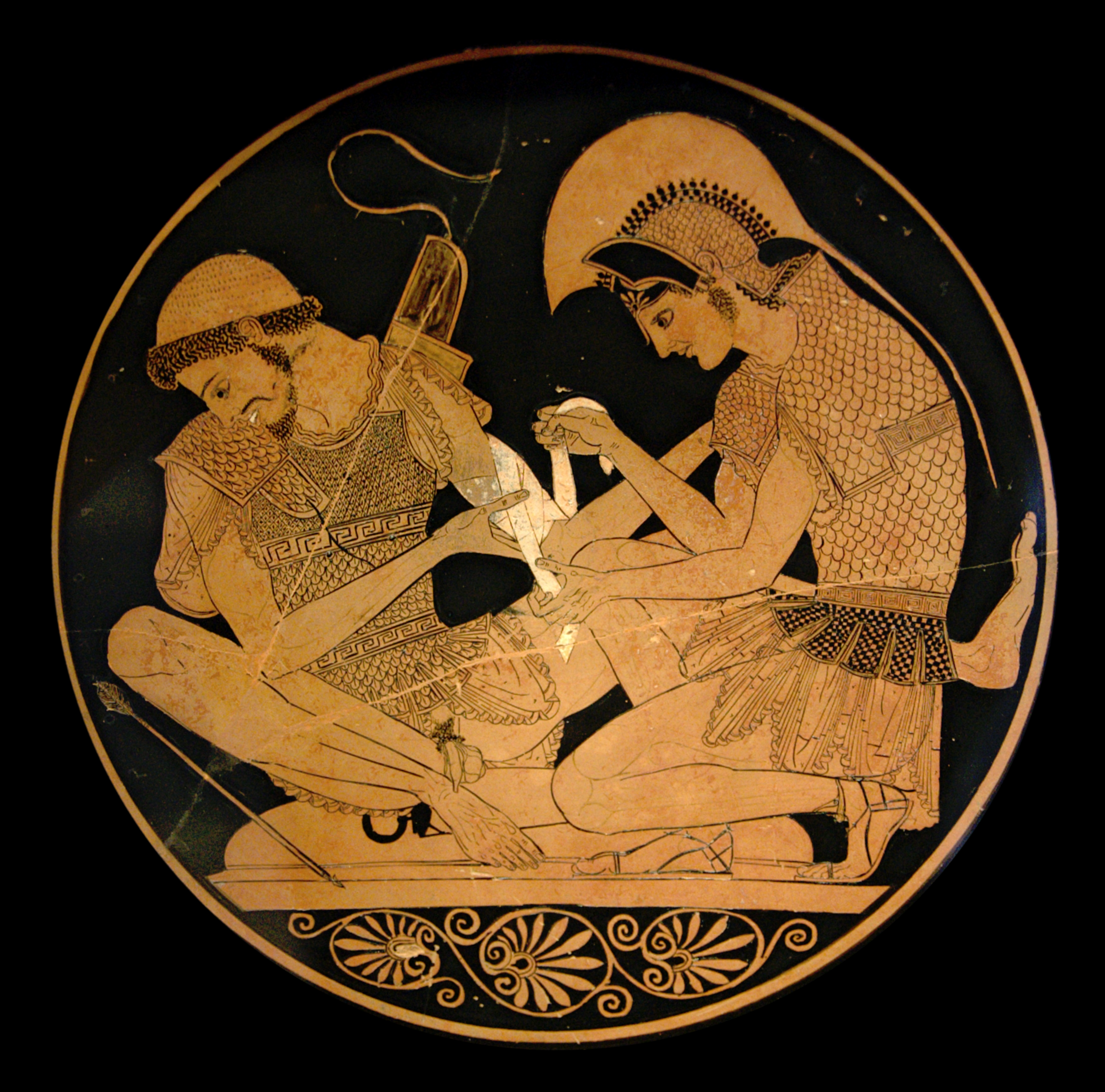 Achilles tending Patroclus wounded by an arrow, identified by inscriptions on the upper part of the vase. Tondo of an Attic red-figure kylix, ca. 500 BCE, From Vulci. The original photograph was uploaded by User:Bibi Saint-Pol, own work, 2008. This version of the image has been resized and digitally edited to change the background to solid black